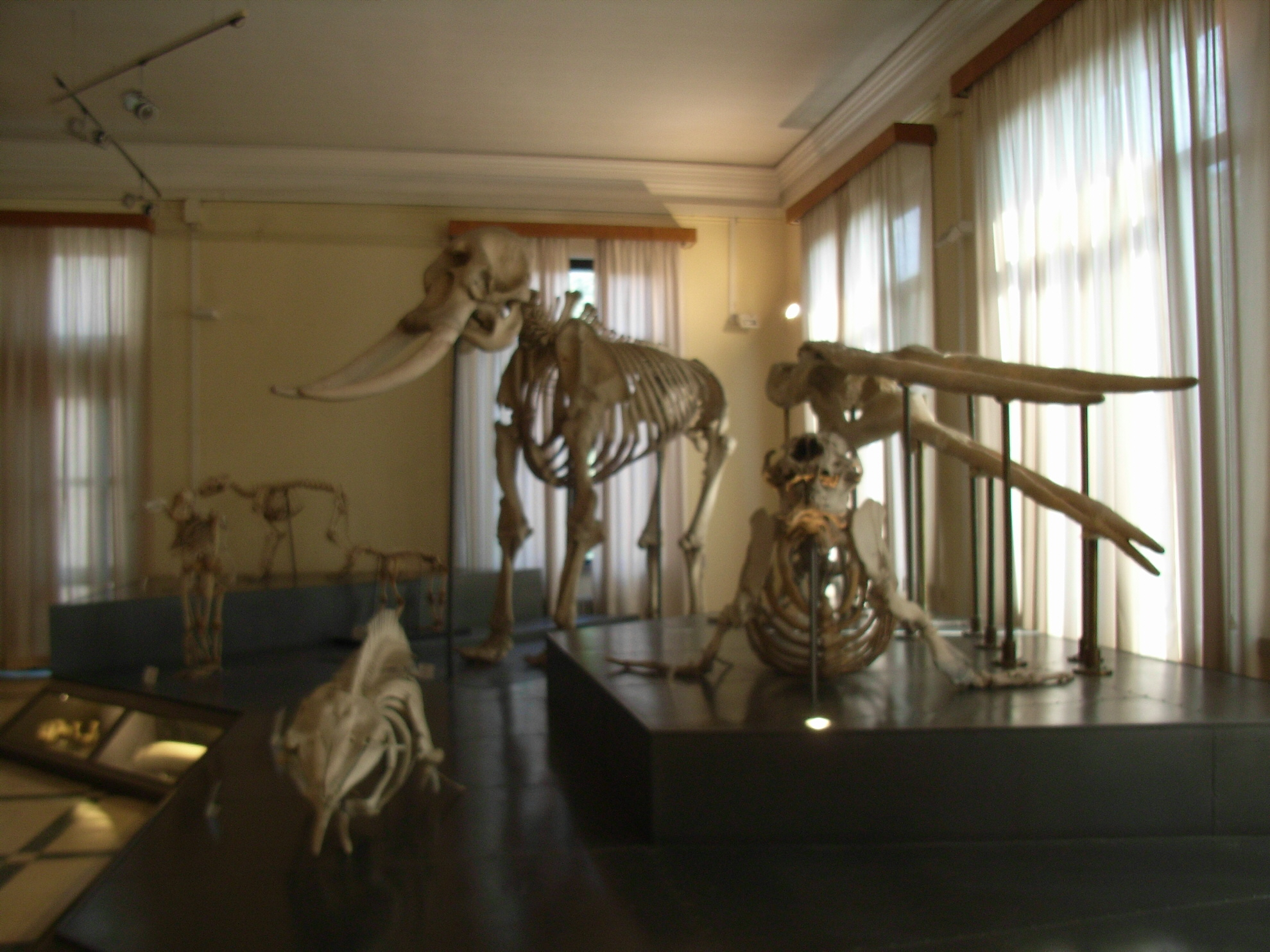 Natural History Museum Rome